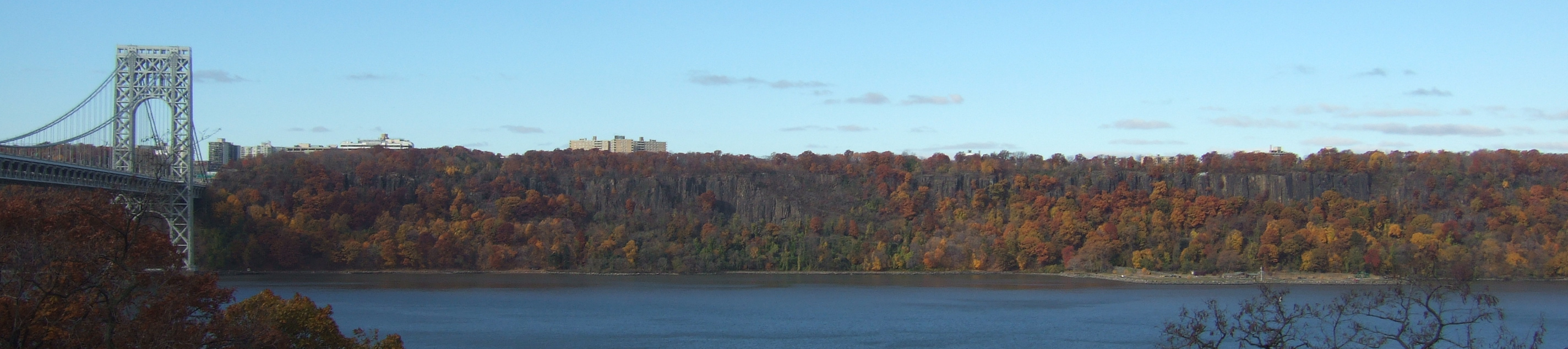 View of the Palisades from Hudson Heights, NY.